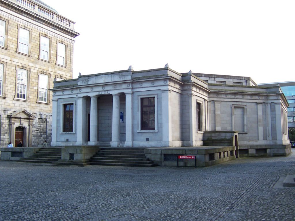 A picture of the 1937 Reading Room within Trinity College, Dublin, prior to the construction of the Long Room Hub building in 2010.